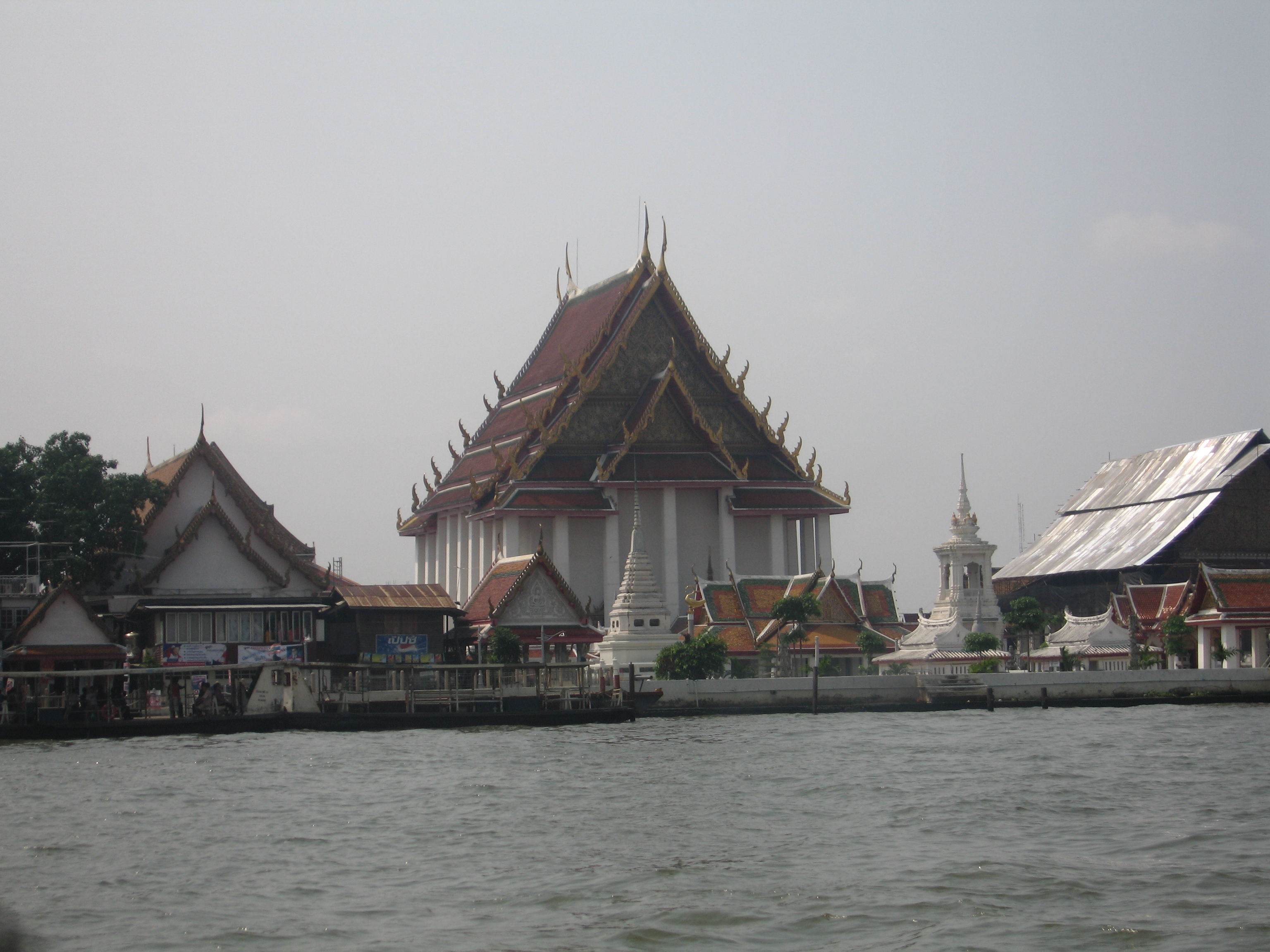 Wat Kalayanamitr Woramahavihan, a Buddhist temple (wat) in Bangkok, Thailand.